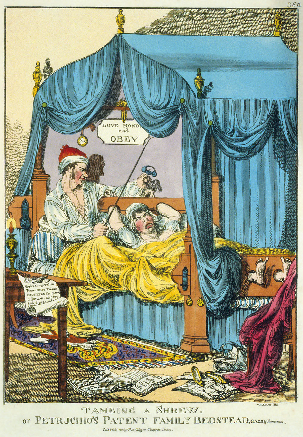 "TAMEING A SHREW. or PETRUCHIO'S PATENT FAMILY BEDSTEAD, GAGS & Thumscrews" October 1815 London caricature by "Williams", whose title is an allusion to Shakespeare's play "The Taming of the Shrew". Most spousal abuse at the time tended to be due to inebriated louts who crudely pounded on their wives in fits of drunken rage after an evening of heavy carousing -- but Petruchio in this print seems to take a rather more dispassionately systematic approach (using techniques similar to modern bondage practices) to establishing who's the boss in the marriage. Mrs. Petruchio is shown confined to a canopied four-poster bed, whose head and foot are stocks, while Petruchio menaces her with cane and gag. On the table is Petruchio's patent, and the thumbscrews, while the books "Rule a Wife and Have a Wife" and a torn copy of "The Whole Duty of Woman" are on the floor. A placard reading "LOVE, HONOR, and OBEY" (with "Obey" written in larger letters) hangs along the wall inside the bed's canopy. This is a quote from the traditional wedding ceremony (in which only the woman promises to obey), and the way that the woman's shoes, corset, and red garment are strewn carelessly on the floor or over a chair may suggest that this is their wedding night. The depiction of the bed was probably imaginative (rather than being based closely on a real-life model).